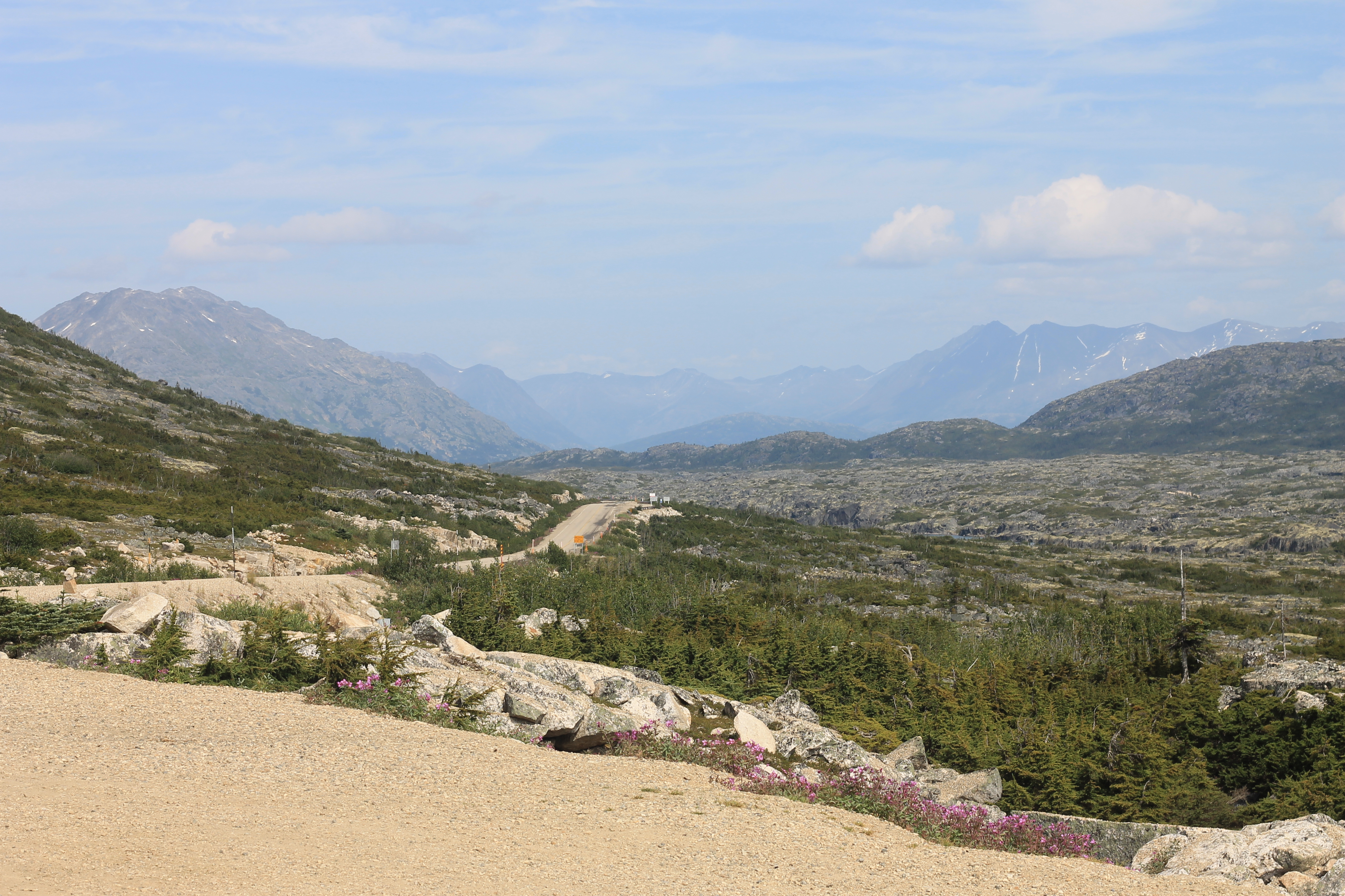 A barren road through the subarctic tundra of Alaska, near the Yukon